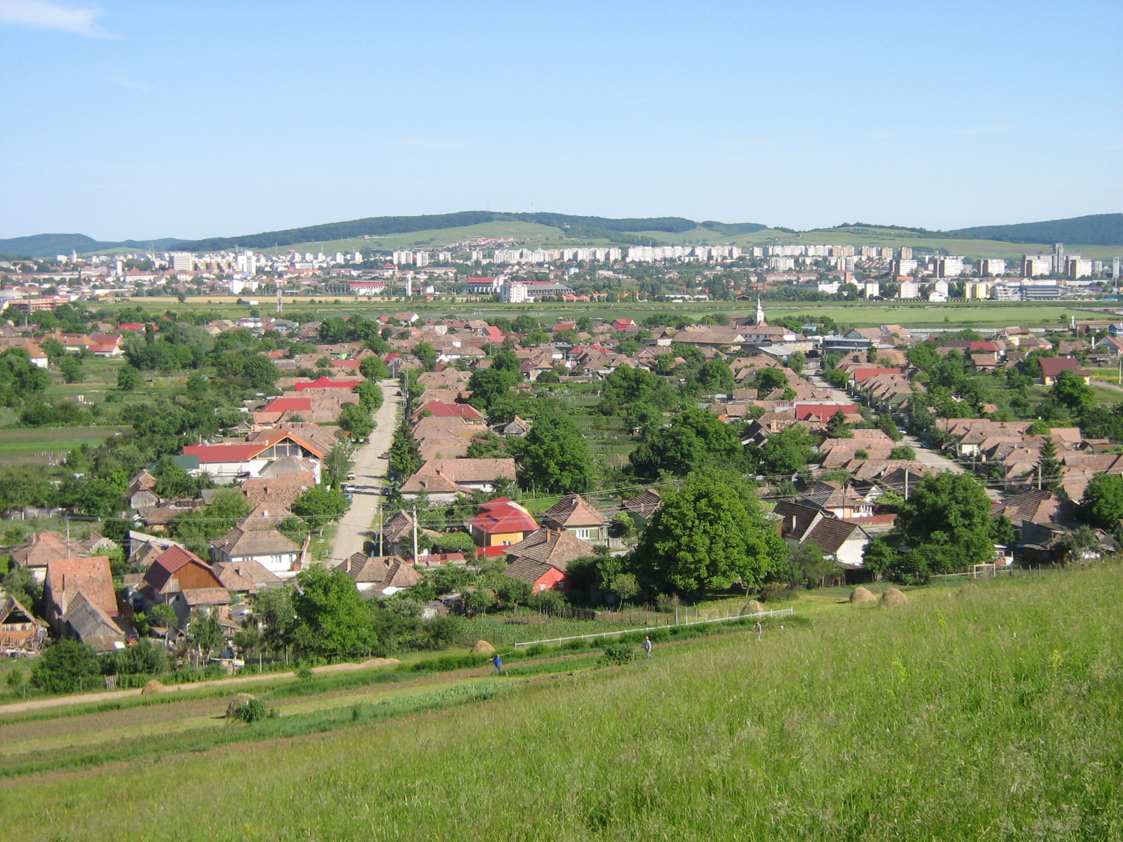 Sâncraiu de Mureş